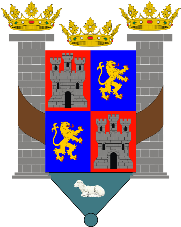 Coat of Arms of Cuquío, Jalisco, México